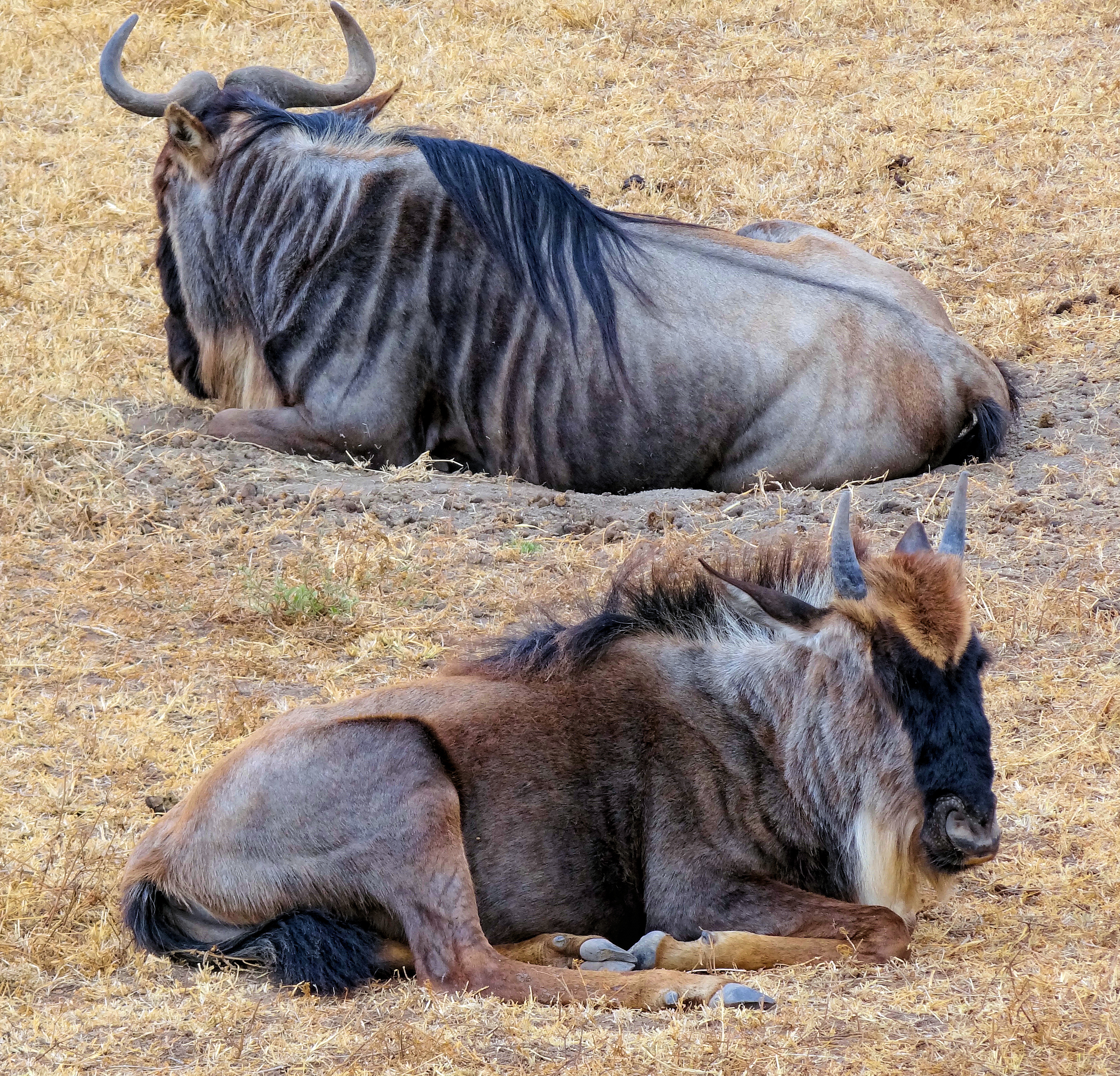 Two blue wildebeest lying down in the Ngorongoro Crater. The top one is an adult, the bottom a young, the difference being the length of the mane and "beard", as well as the shape of the horns.